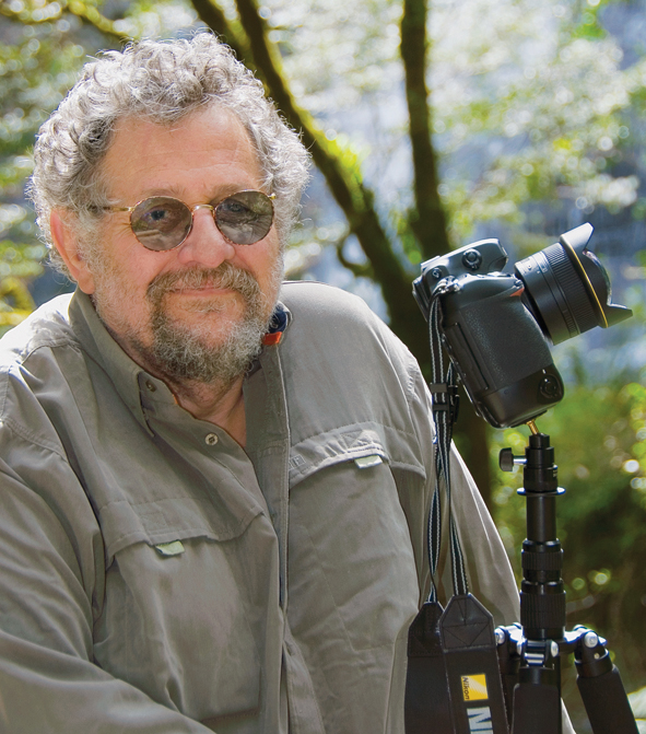 Portrait of Steve Parish — Australian photographer and publisher